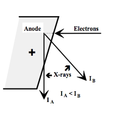 Illustration of the origin of the Heel Effect - see text for details.